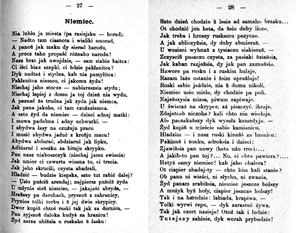 Scanned image of Niemiec by Francišak Bahuševič Беларуская (тарашкевіца): Адсканаваная выява вершу «Немец» Францішка Багушэвіча